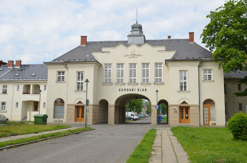 Jubilejní kolonie - Komorní klub